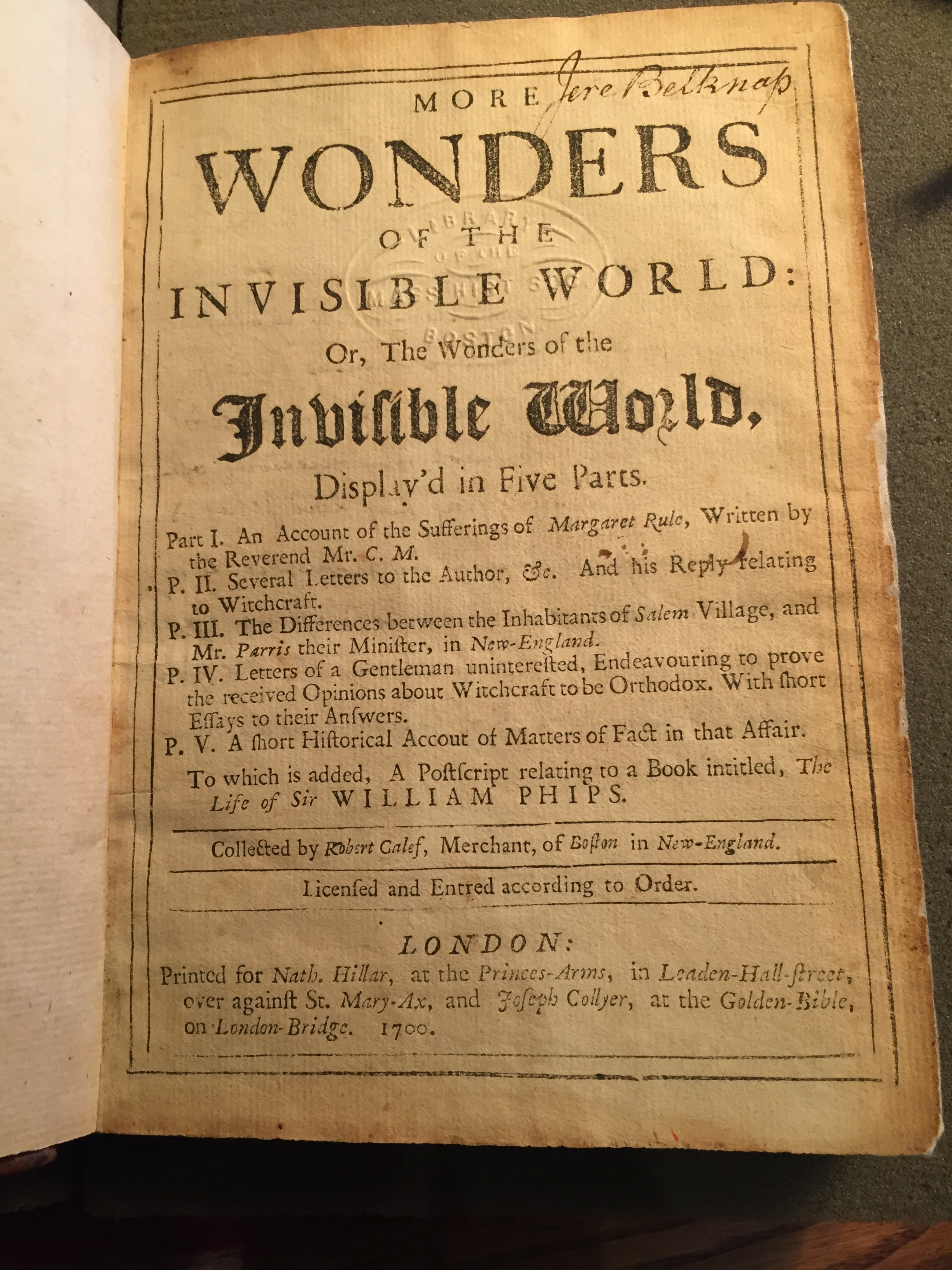 My photo taken in Boston, MA USA of title page to this work published in 1700, with permission, held in MHS archives, an organization started by J. Belknap who wrote his name in this book.